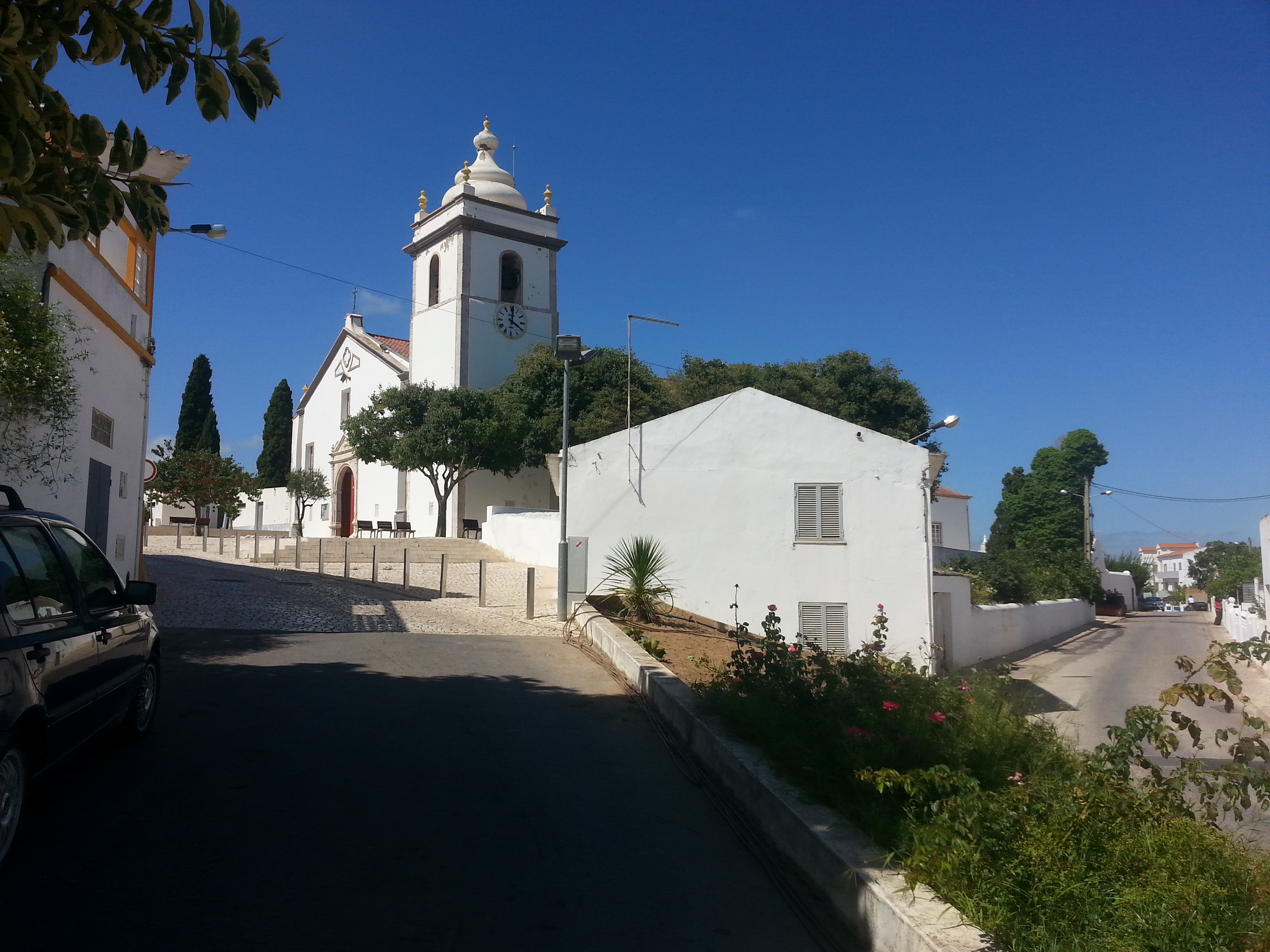 A view of the Church Alte Matrix or Church of Our Lady of the Assumption (Igreja Matriz de Alte ou Igreja de Nossa Senhora da Assunção) in the village of Mexilhoeira Grande, Portimão, Algarve, Portugal. The church dates from the 16 century and is built in the Renaissance style, Inside the church there are sevral notable examples of Altarpieces.